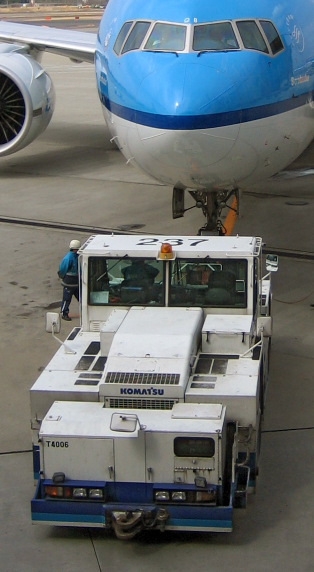 KLM Boeing 777 being pushed back from the gate at Narita International Airport